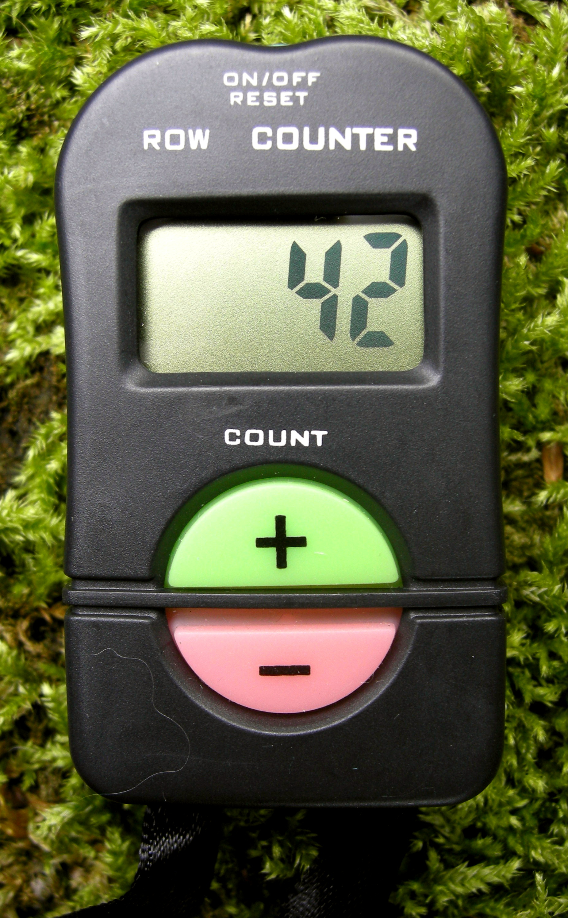 Electronic pendant knitting row counter, manufactured in 2000-2010 for sale in the United States.